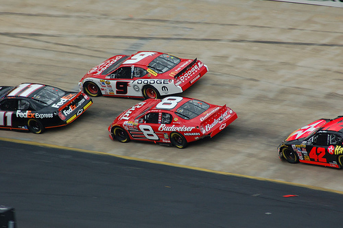 racing at the spring NASCAR race at Bristol, #11 Denny Hamlin #9 Kasey Kahne #8 Dale Earnhardt Jr. #42 Jamie McMurray